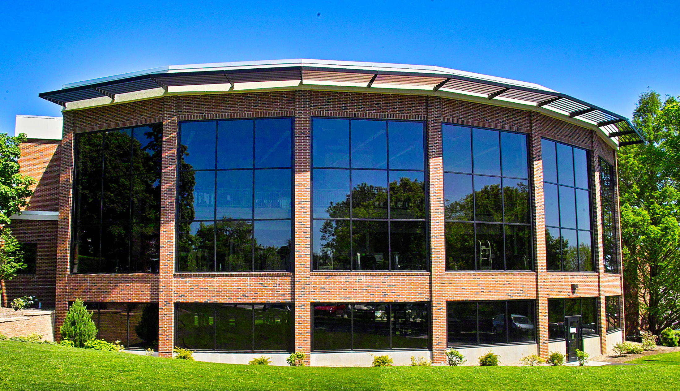 new gym carr